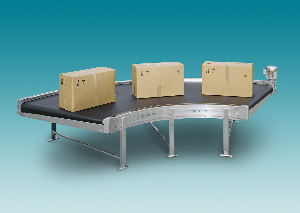 curve belt conveyor